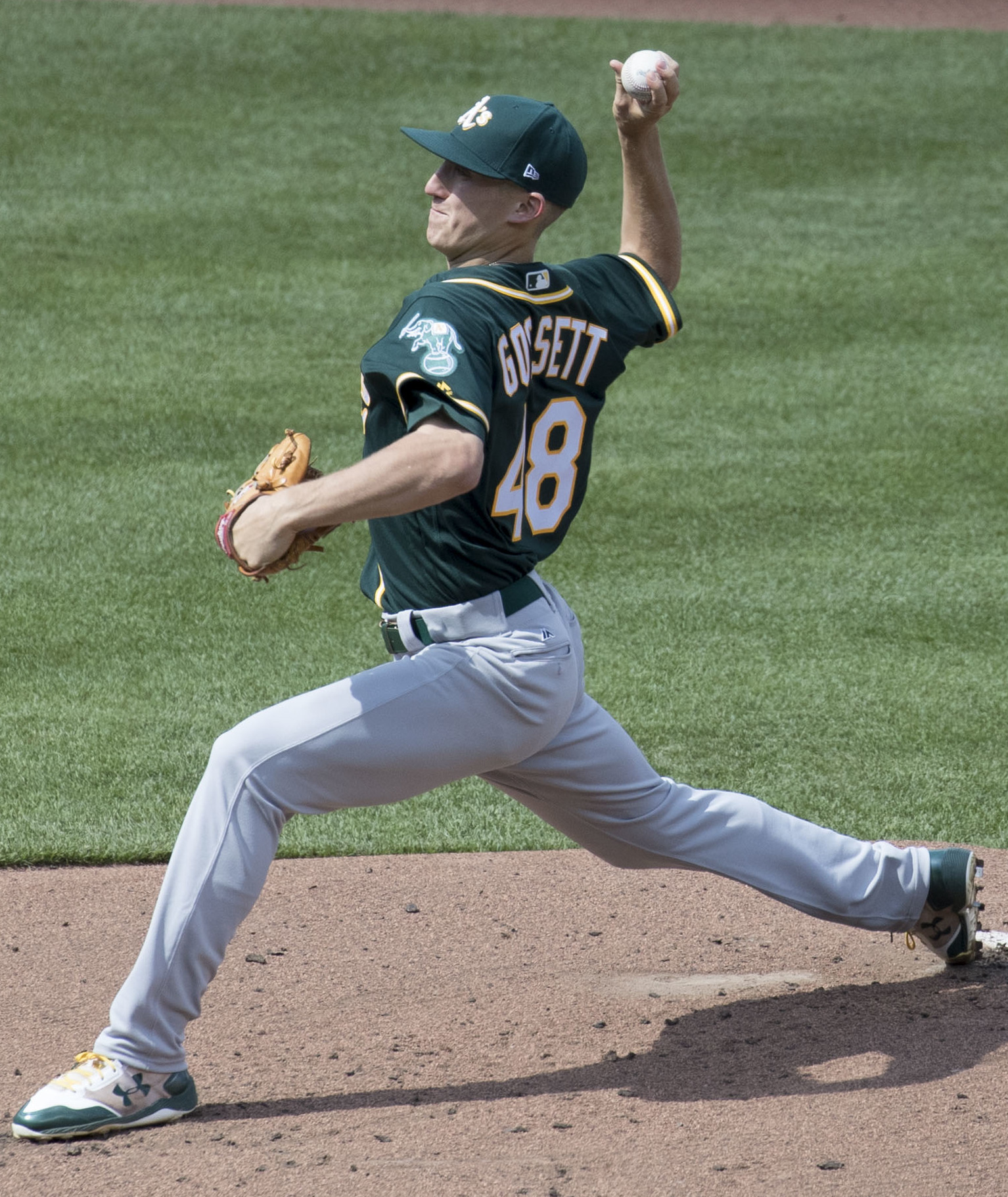 A's at Orioles 8/23/17